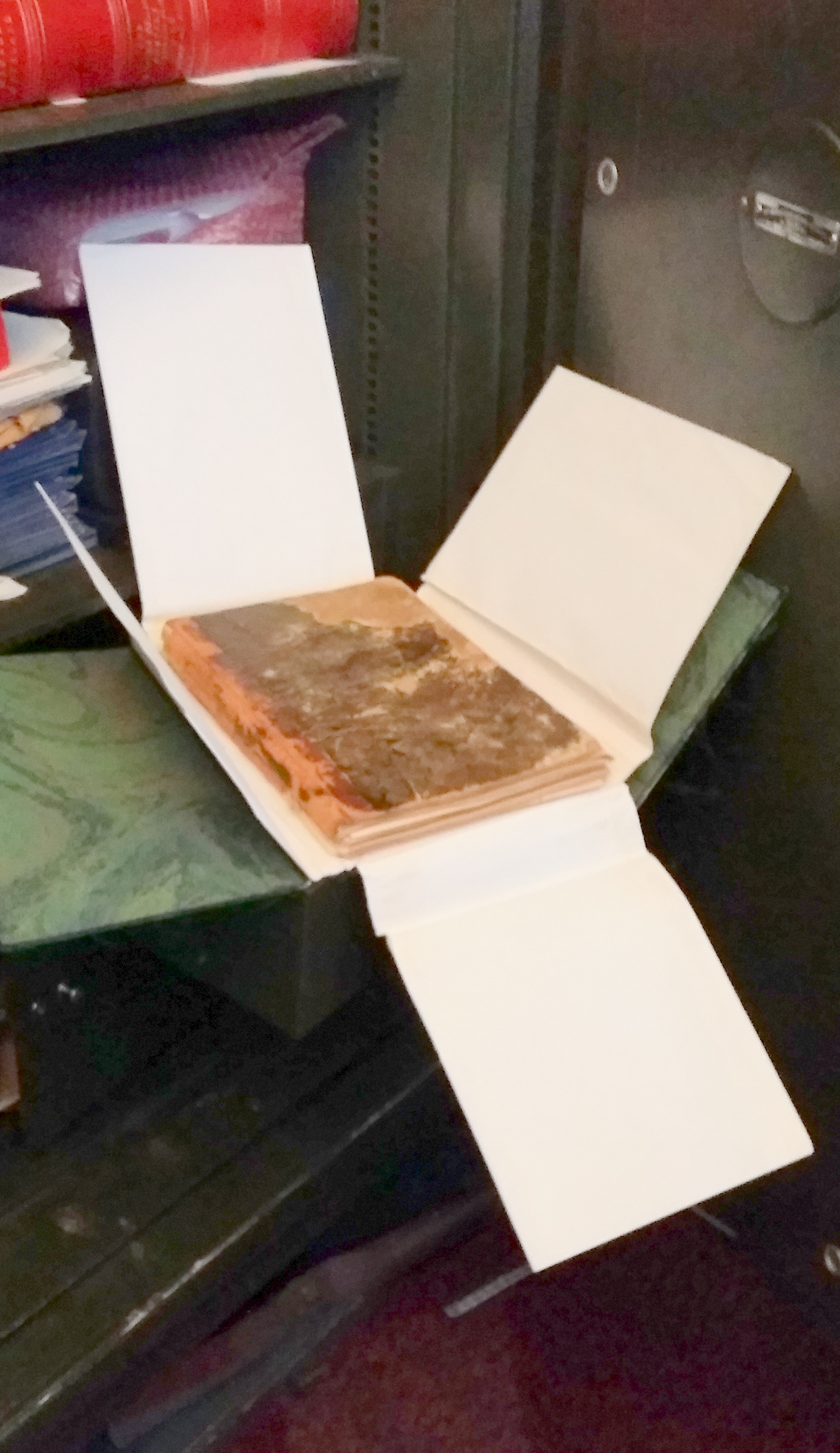 This item is part of the Stephen Foster collection preserved by the Center for American Music, University of Pittsburgh Library System, the University of Pittsburgh. It was taken as part of the Wikipedia Visiting Scholar program that was coordinated by the WikiEd Foundation and the Archives Service Center at the University.